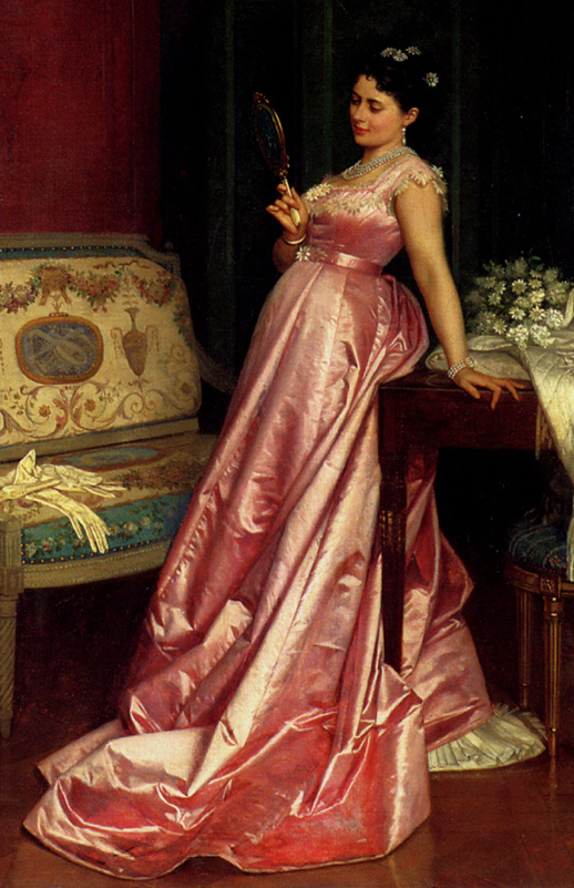 Detail of The Admiring Glance